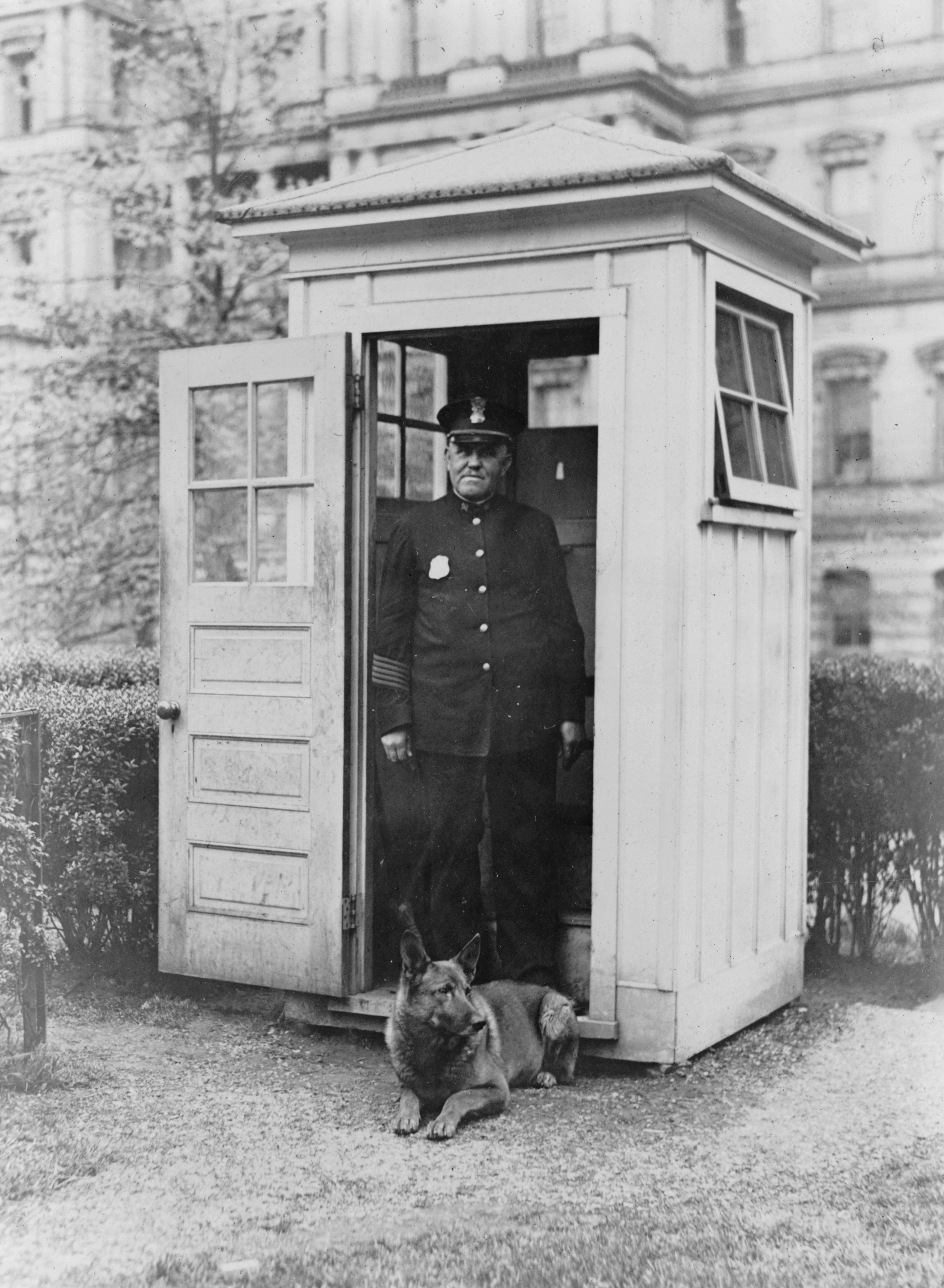 "King Tut, the President's Belgian Police dog has taken up his duties at the White House and makes regular rounds to see that the guards are in their places. He is here shown at the shelter of Officer W.S. Newton." Photo of US President Herbert Hoover's dog "King Tut" with policeman at sentry box, Washington, D.C., 1929.